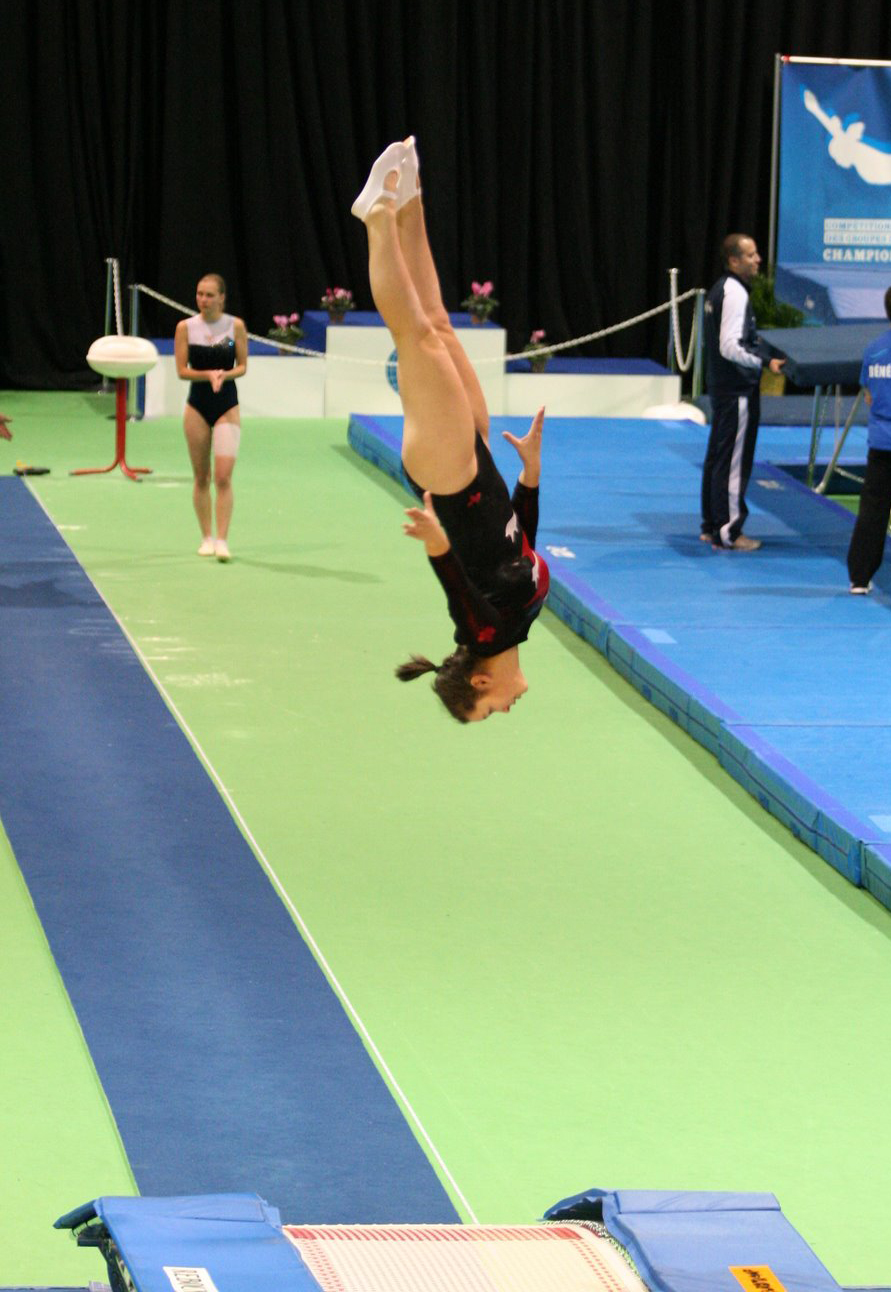 Double mini trampoline competitor at WAGC in Quebec November 2007.